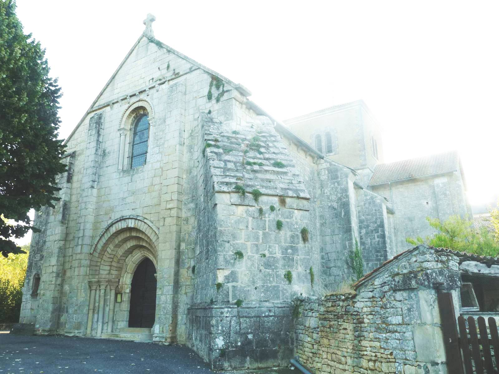 church of Saint-Mary, Charente, SW France